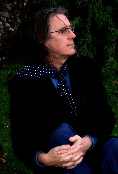 Photo taken by subject's husband, Neil France, in Pembrokeshire, U.K.